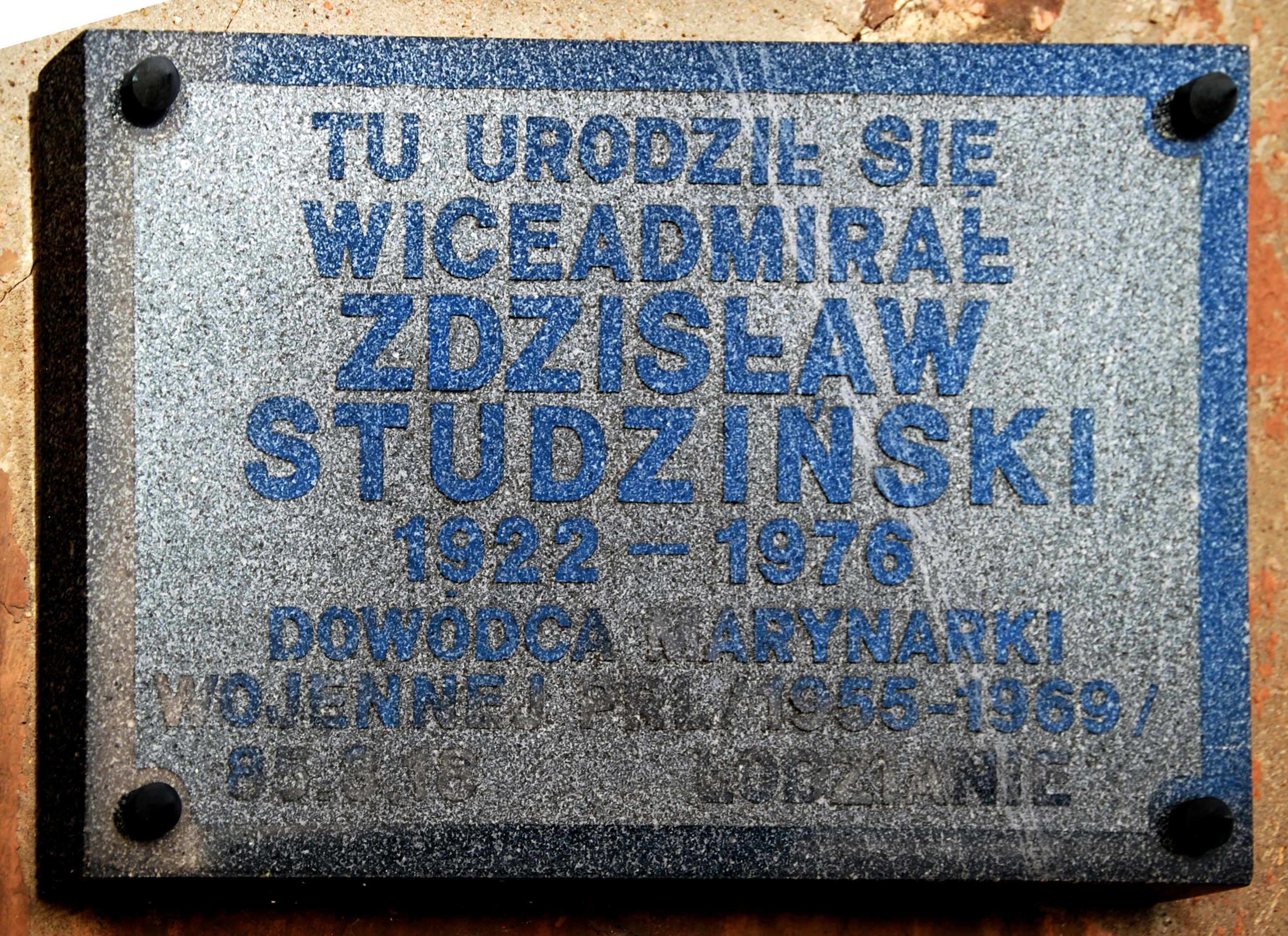 Plaque Viceadmiral Studzinski, Łódź, 6 Sierpnia Street